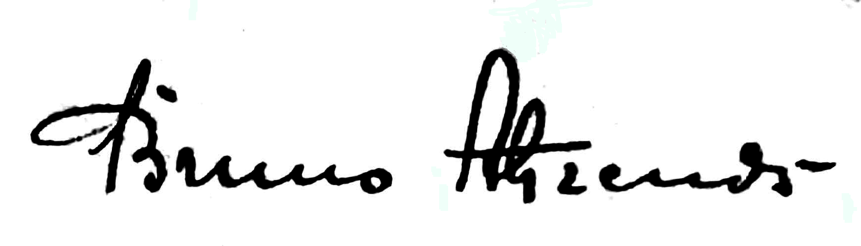 Autograph of German architect Bruno Ahrends (1878–1948)